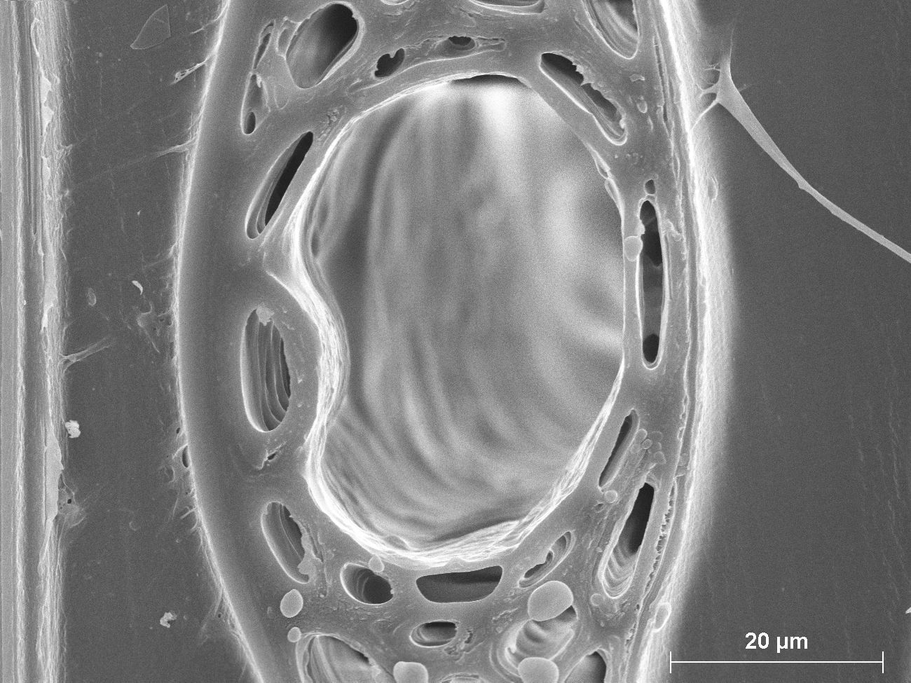 Wood ray with resin channel (Picea abies)